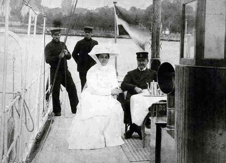 Alexander Kircher with his wife on his steamer yacht "Romana", in the background two crew members for deck and engine; circa 1912